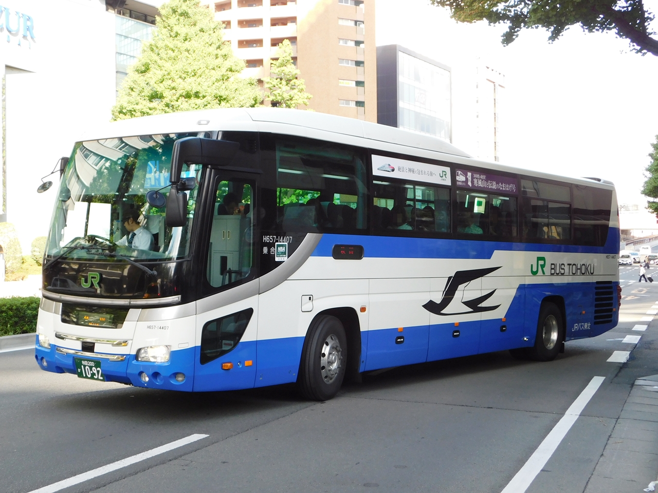 JR bus Tohoku (Akita branch) Hino S'elega (QRG-RU1ESBA)on highwaybus "Senshu-go"(Akita-Sendai)